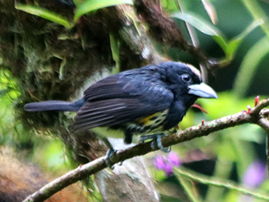 A female Spot-crowned barbet